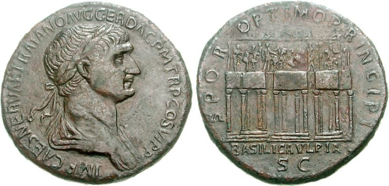 Trajan. AD 98-117. Æ Sestertius (25.58 g, 6h). Rome mint. Struck AD 112-115. Laureate and draped bust right; BASILICA VLPIA in exergue, the Basilica Ulpia: building façade with three distyle avant-corps, each set on two-tiered base; central epistylon surmounted by triumphal quadriga; figures on either side holding outer horses and long scepters; flanking epistyla each surmounted by biga; pair of legionary aquilae at outer ends; ornate architrave above. RIC II 616 var. (not draped); Banti 36 (same rev. die as illustration).